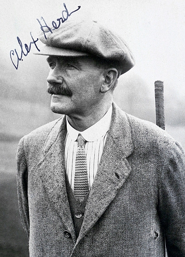 Autographed postcard of Alex Herd, British, c1920.